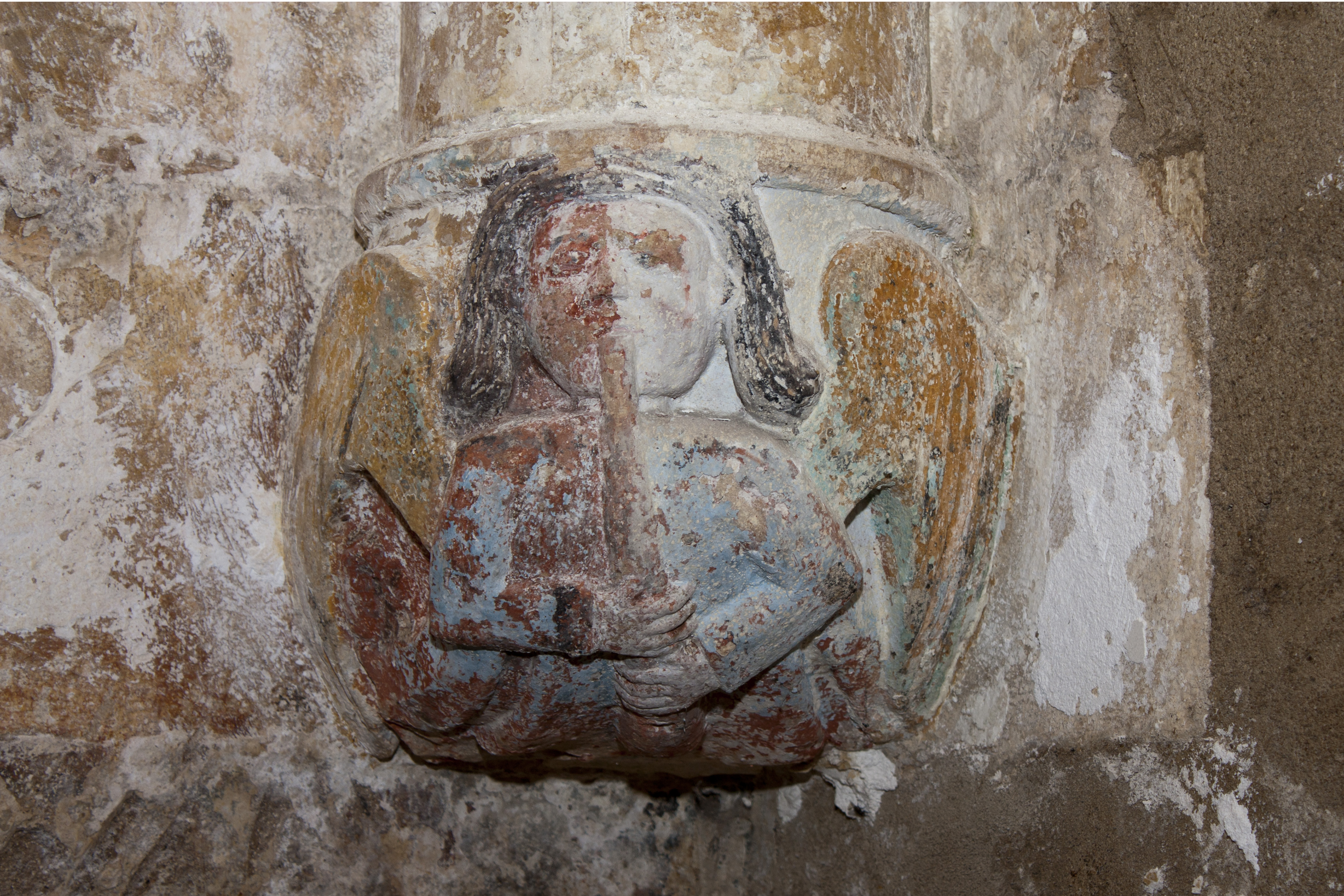 Lamp butt adorned with a musical angel